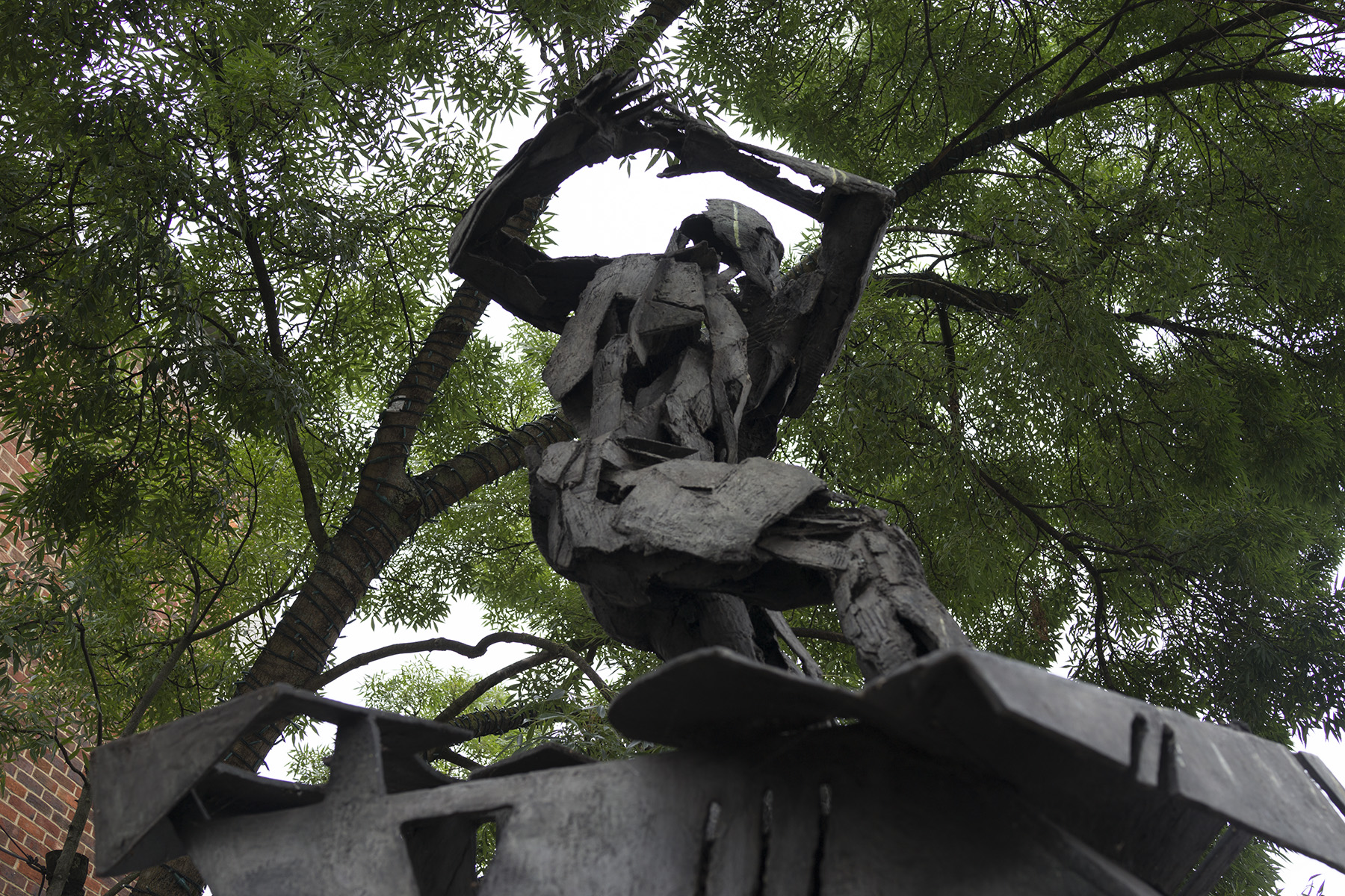 Commissioned in 1989 for Kingston Upon Thames, a bronze sculpture sited on the Old London Road at the Junction of Queen Elizabeth Road.